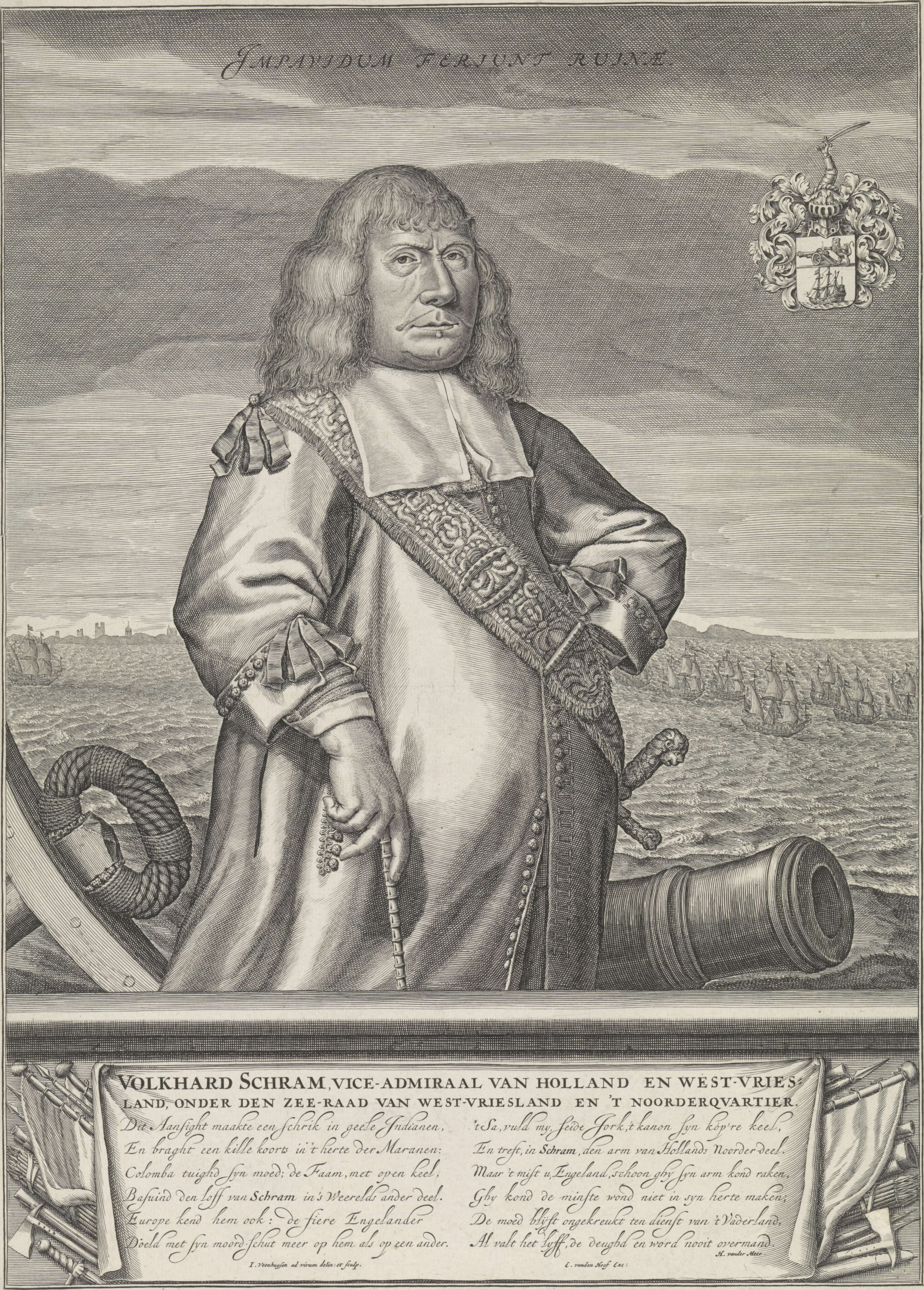 Portrait of Volkert Schram, vice-admiral of Holland and West Friesland